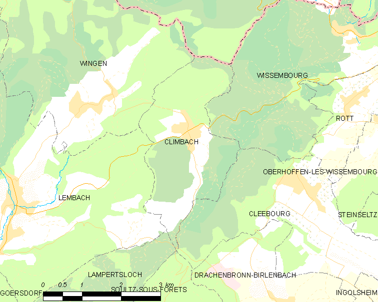 Map of French municipality